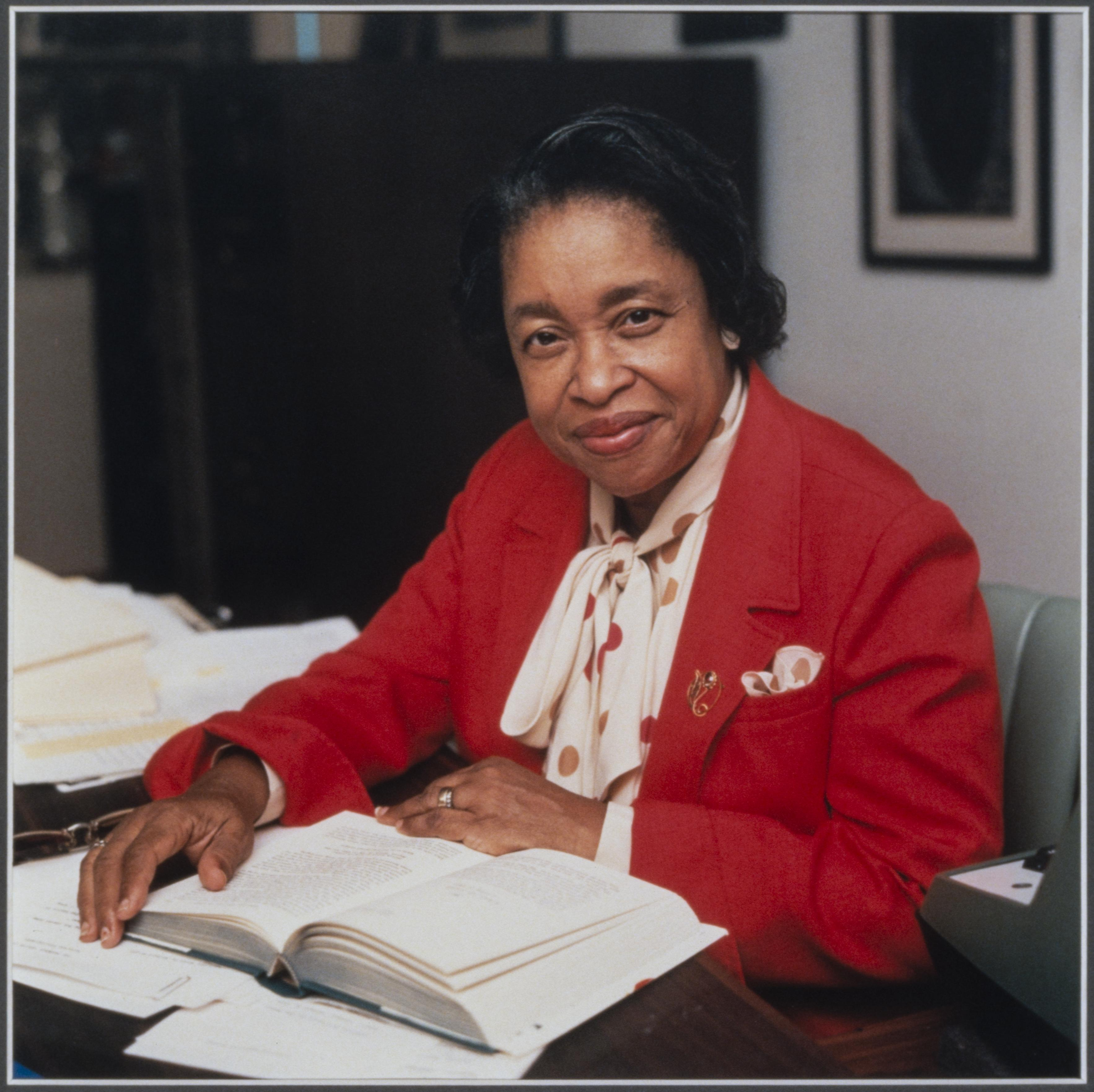 Biography: A writer, lecturer, and poet, Margaret Walker Alexander is a professor of English at Jackson State University and director of its Institute for the Study of History, Life and Culture of Black People. She was born on the campus of Central Alabama Institute in Birmingham, where her father, the Rev. Sigismund Walker, taught. Her mother, Marion Dozier Walker, was a musician and church school teacher. Miss Walker graduated from Northwestern University, and earned an M.A. from the Writing Program at the University of Iowa, and later a Ph.D., also from Iowa. Dr. Alexander taught English at several colleges before joining the faculty at Jackson State College, where she became a full professor in 1965. She is the author of Jubilee, The Daemonic Genius of Richard Wright, and several volumes of verse including Prophets for A New Day, and October Journey. Her first volume of poetry, For My People, won the Yale Series of Younger Poets Award in 1942. By speaking publicly and organizing exhibits and conferences, Dr. Alexander has sought throughout her career to broaden society's awareness of Black culture. Description: The Black Women Oral History Project interviewed 72 African American women between 1976 and 1981. With support from the Schlesinger Library, the project recorded a cross section of women who had made significant contributions to American society during the first half of the 20th century. Photograph taken by Judith Sedwick Repository: Schlesinger Library on the History of Women in America. Collection: Black Women Oral History Project Research Guide: Questions?